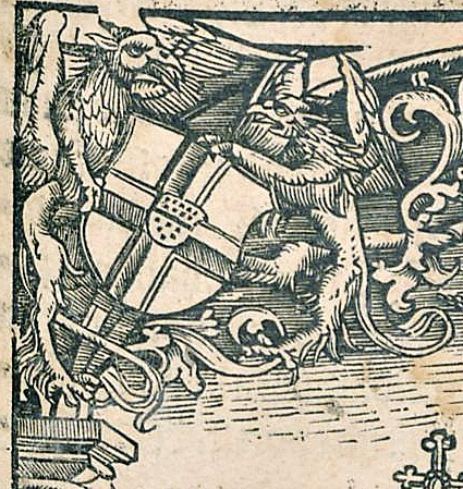 Wappen des Trierer Erzbischofs Johann IV. von Hagen